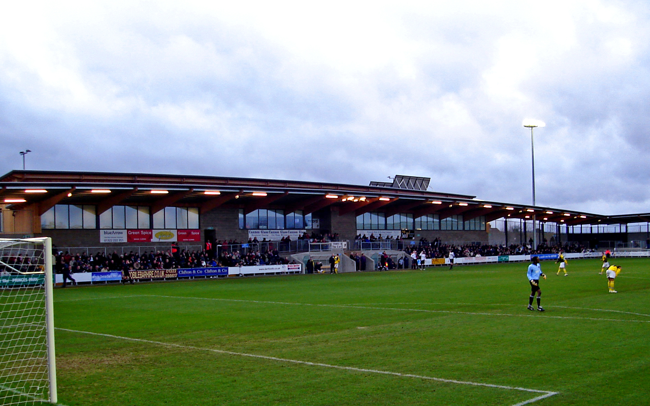 Princes Park stadium's south stand, taken during a football match between Dartford FC and Burgess Hill Town.